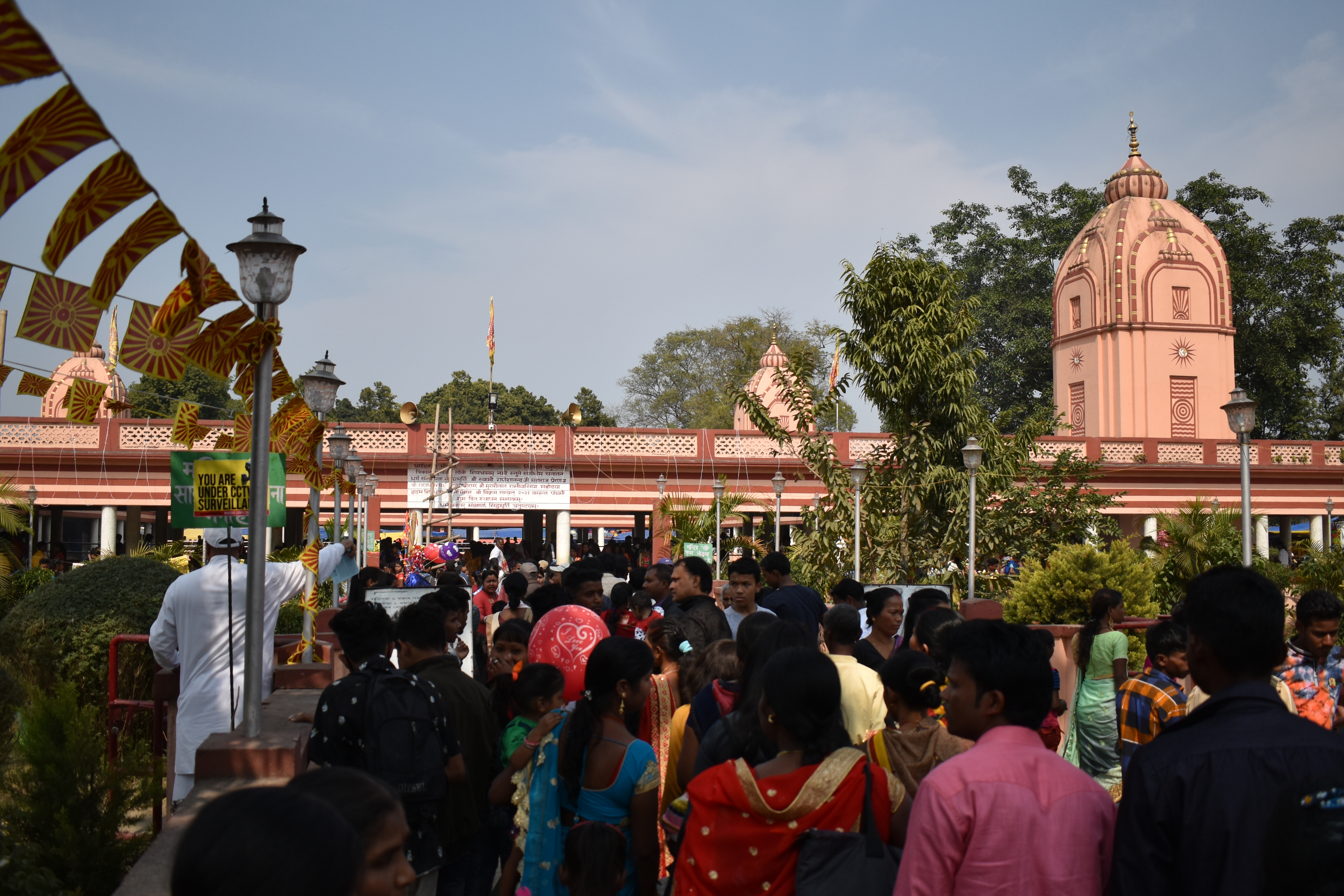 People gathering for pray 3 This photo has been taken in the country: India